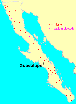 Guadalupe Sur Mission, Baja California Peninsula, location map created by article's author